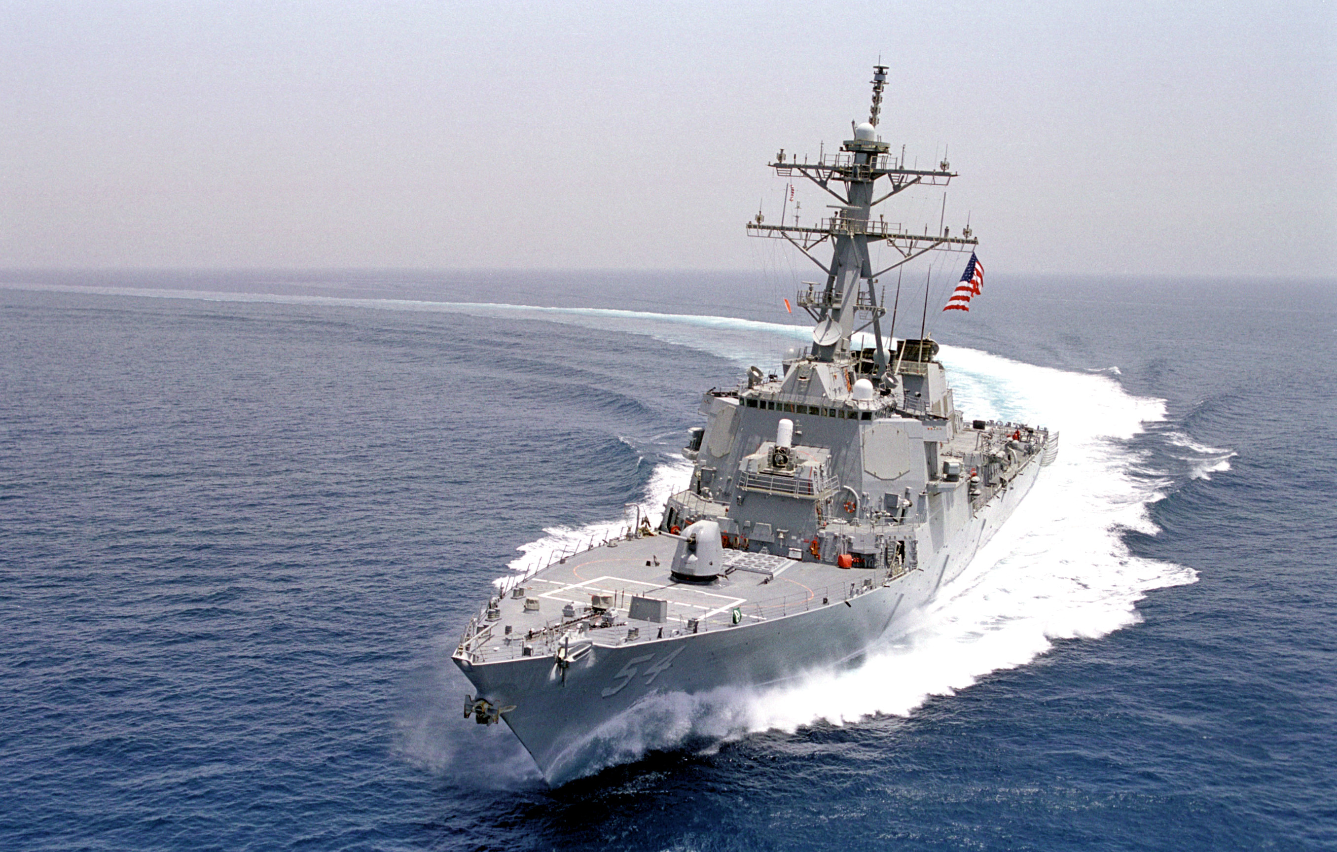 At sea with USS Curtis Wilbur (Jul. 09, 1999) -- USS Curtis Wilbur (DDG 54) patrols the waters of the Arabian Gulf as part of Carrier Task Force Five Zero (CTF-50). Curtis Wilbur is currently operating with the USS Constellation (CV 64) in support of Operation Southern Watch. U.S. Navy photo by Photographer’s Mate 3rd Class John Sullivan. (RELEASED)